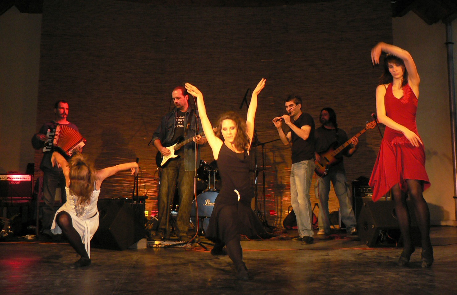 A Shannon egy szabadtéri fellépésen 2008-ban